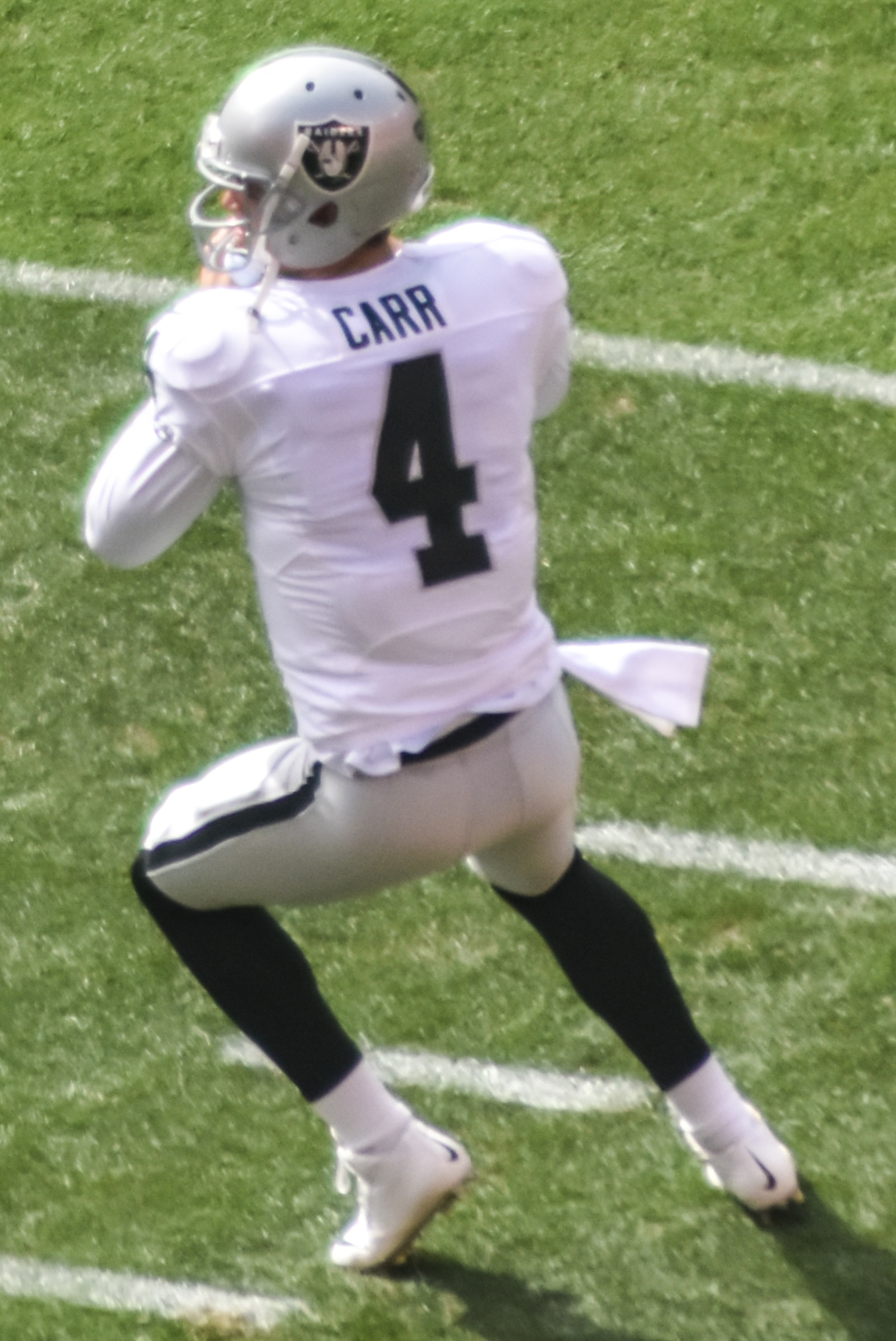 Raiders at Browns